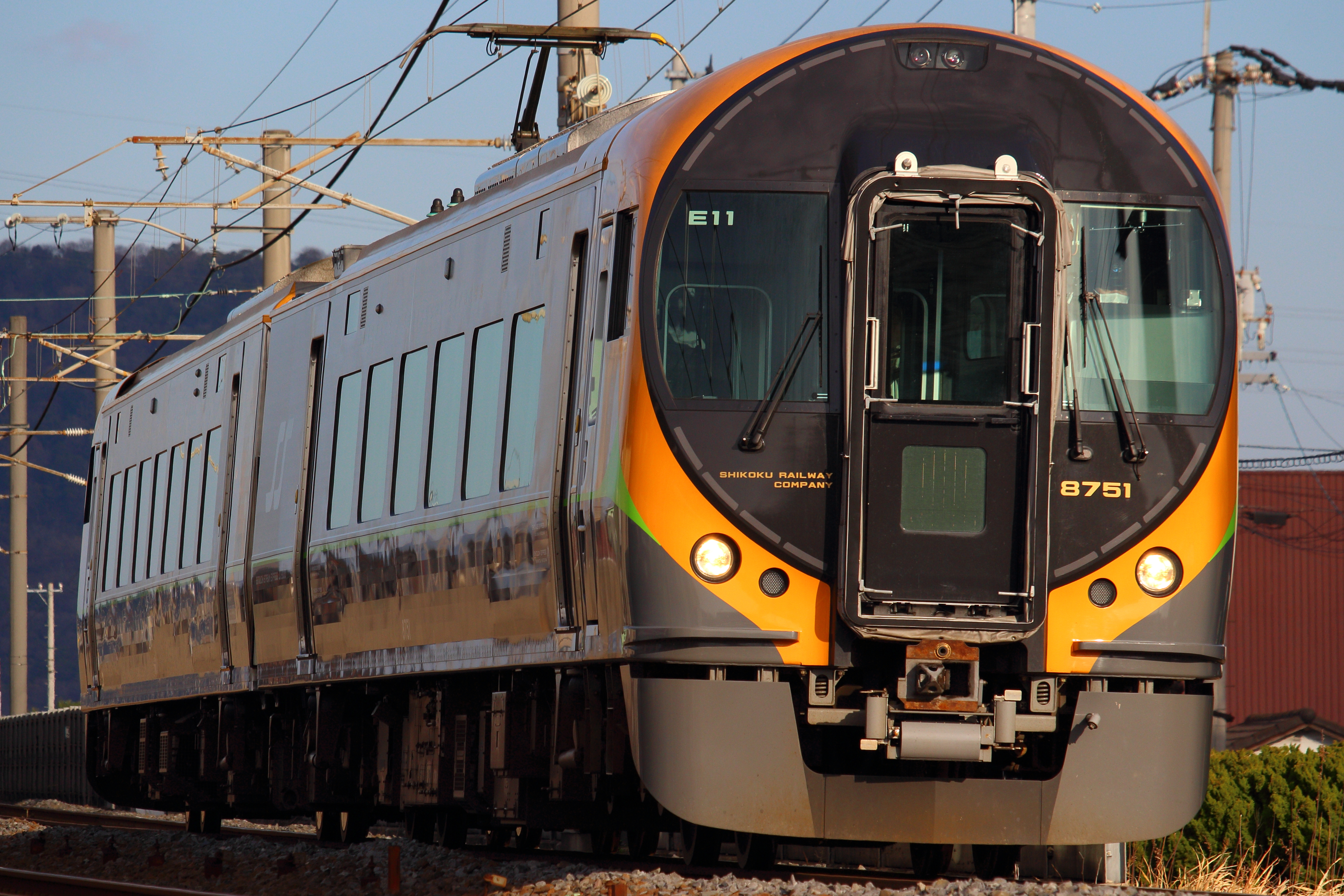 JR Shikoku 8600 series 2-car EMU set E11 on an Ishizuchi limited express service